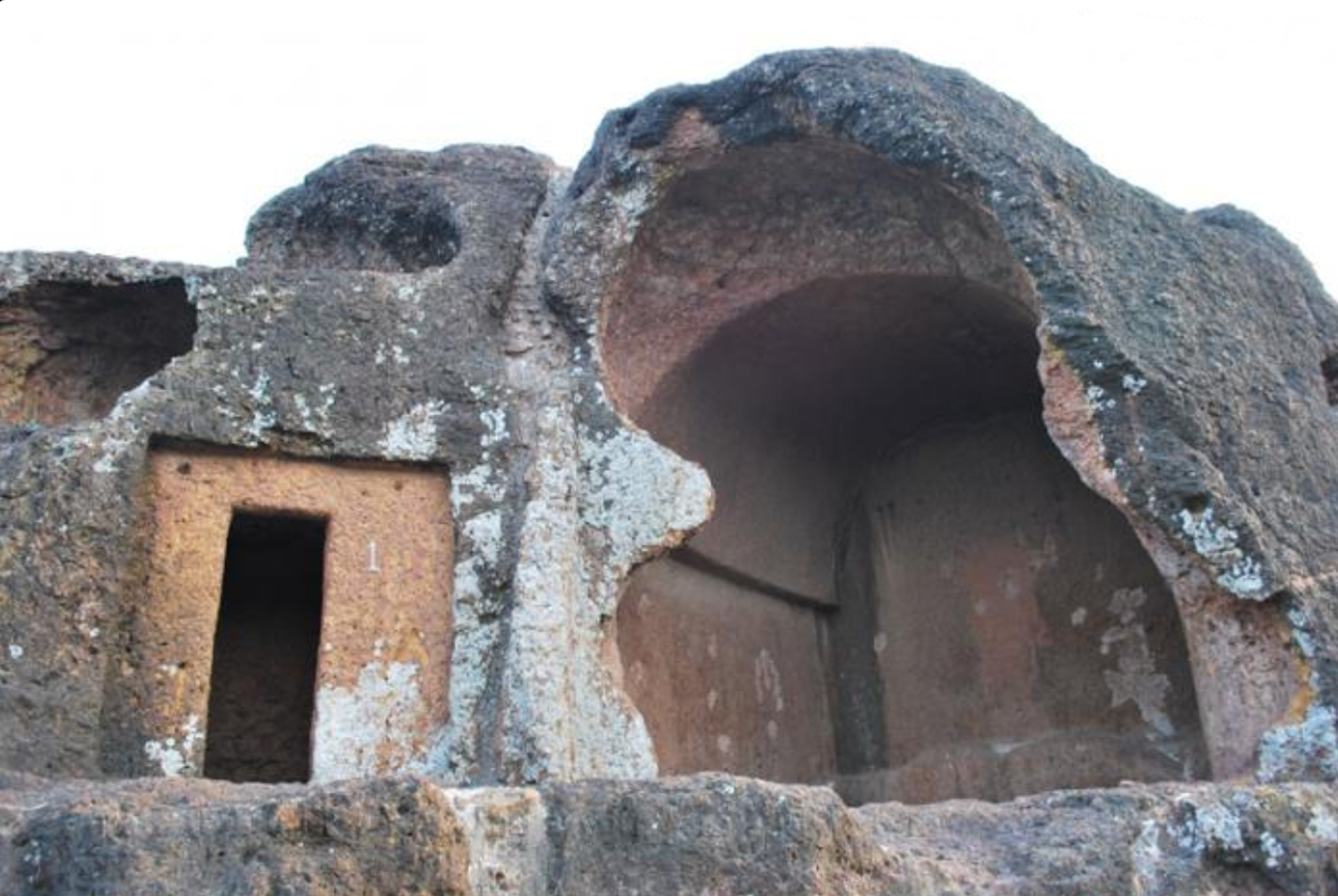 Hatiyagor Buddhist Caves